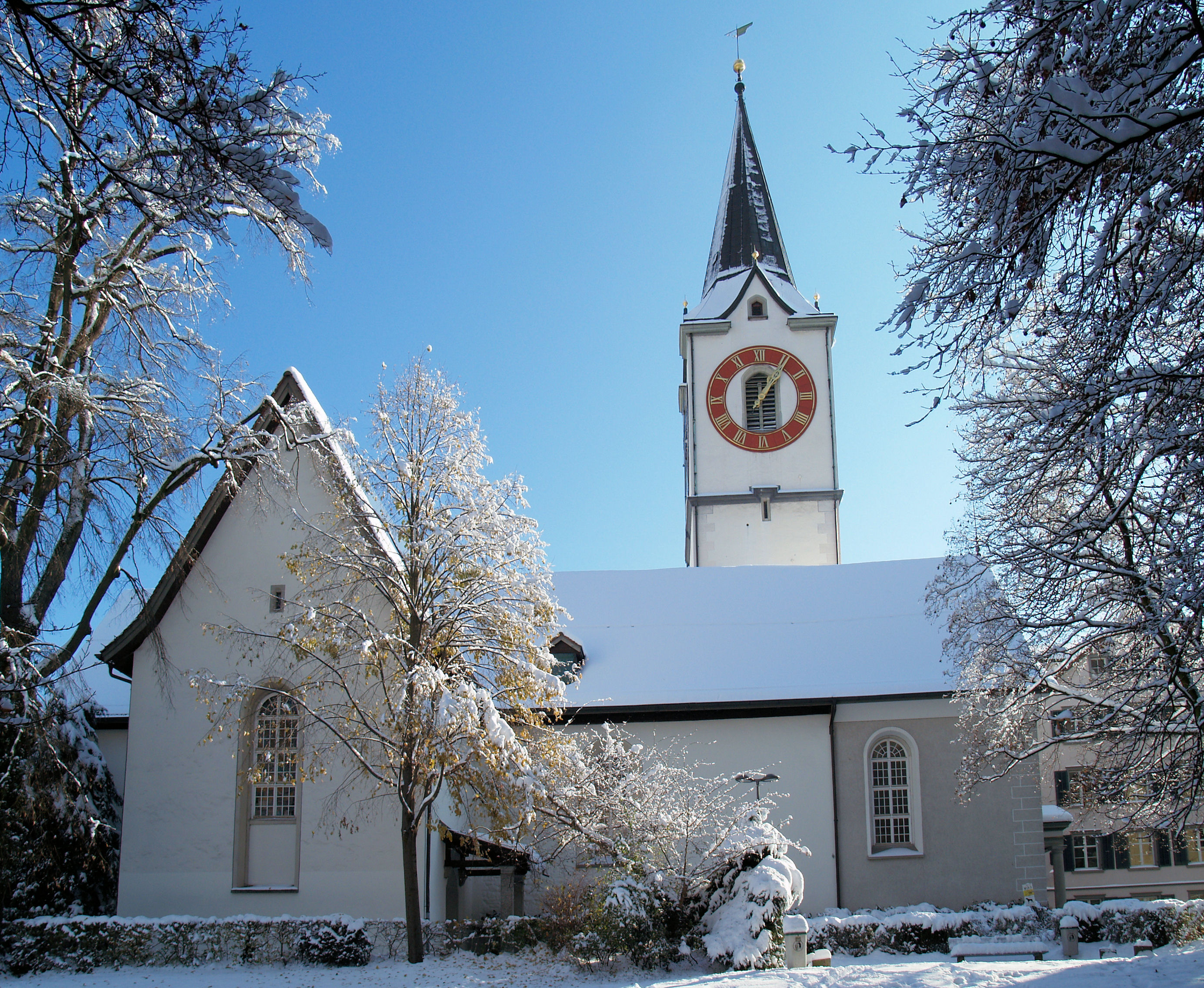 Church St. Mangen in the city of St.Gallen (Switzerland)